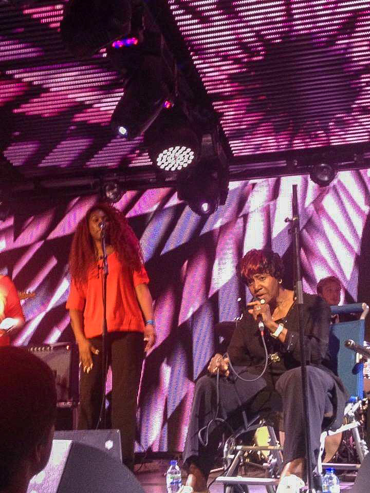 Naomi Shelton in London 2015